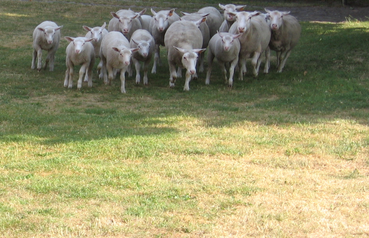 sheep rush